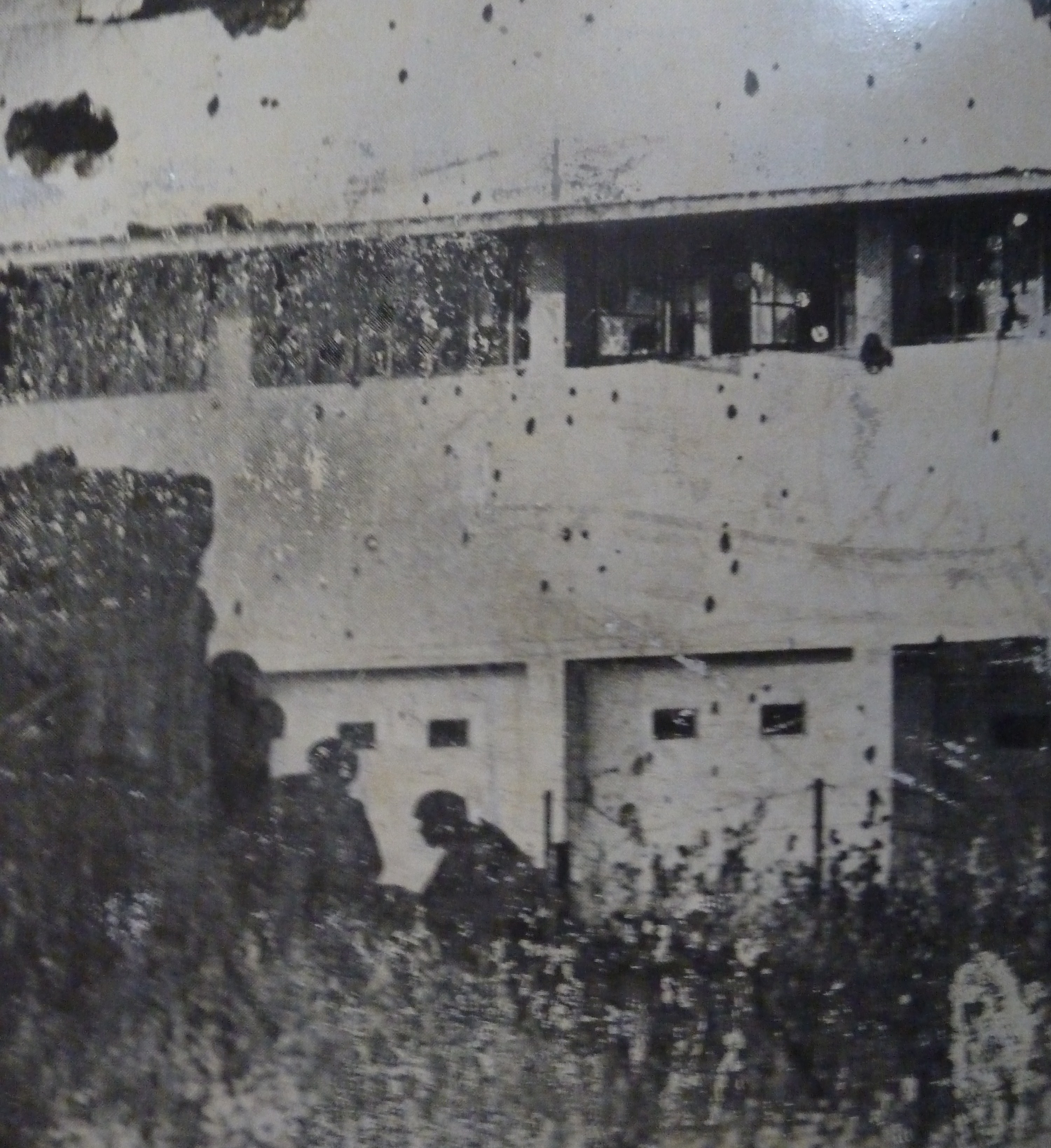 Ammunition Hill Museum Exhibits, Historic Images of Jerusalem